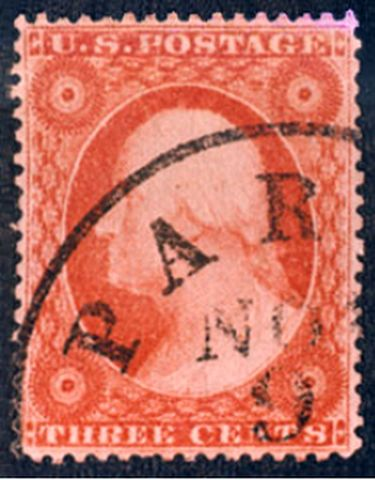 US Postage stamp, Washington, 1857 issue, 3c, 1st officially perforated issue.